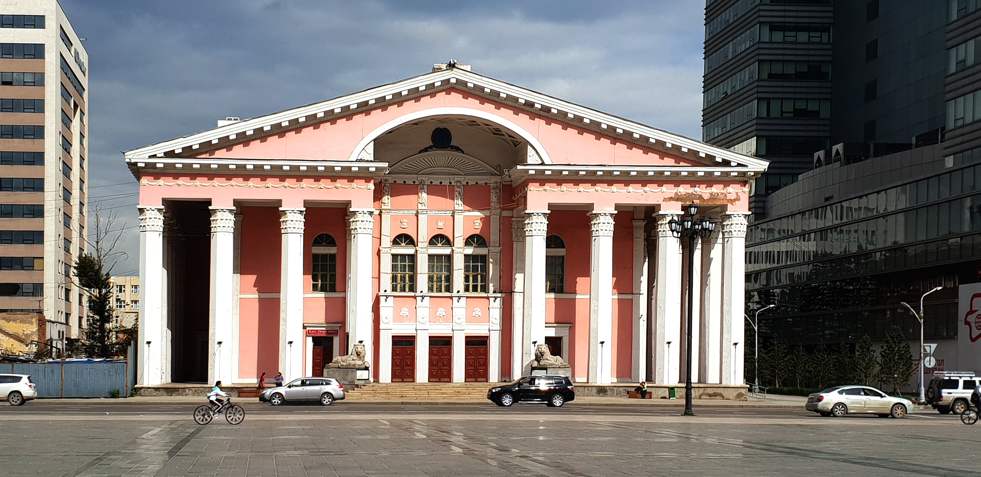 National Academic Theatre of Opera and Ballet of Mongolia